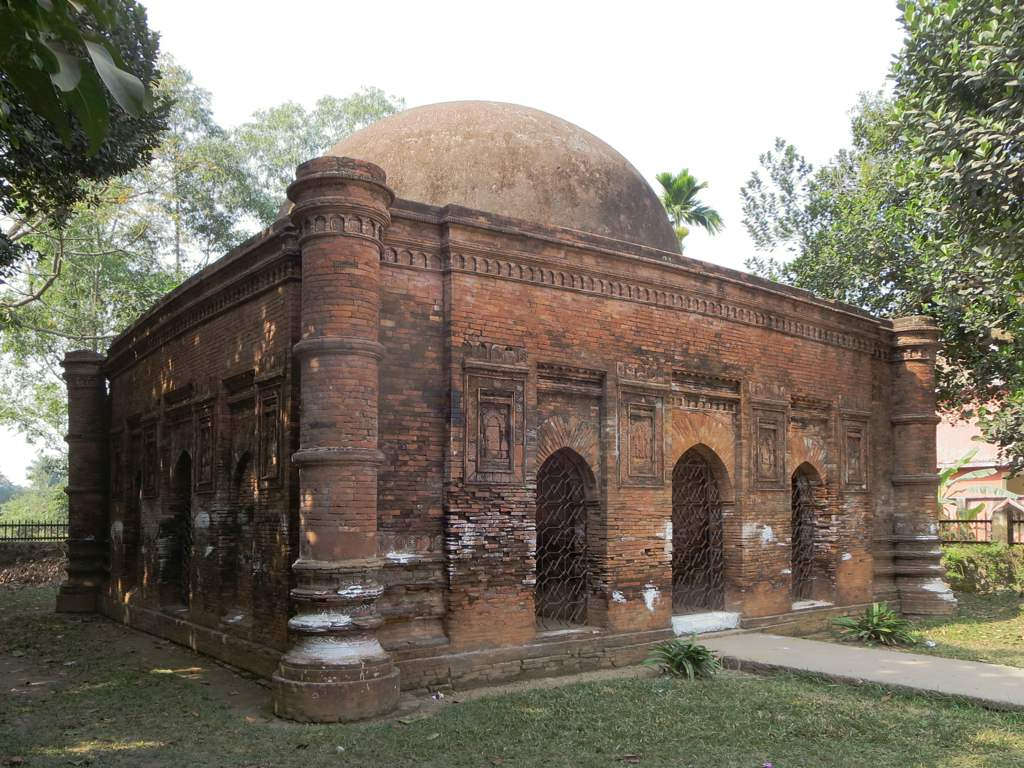 The Goaldi Mosque (1519) at Sonargaon near Dhaka, Bangladesh, dates from a time when the capital of Bengal was here.